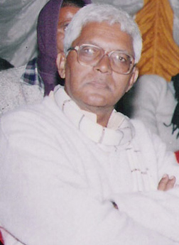 Gorelal Manishi.Taken in Patna